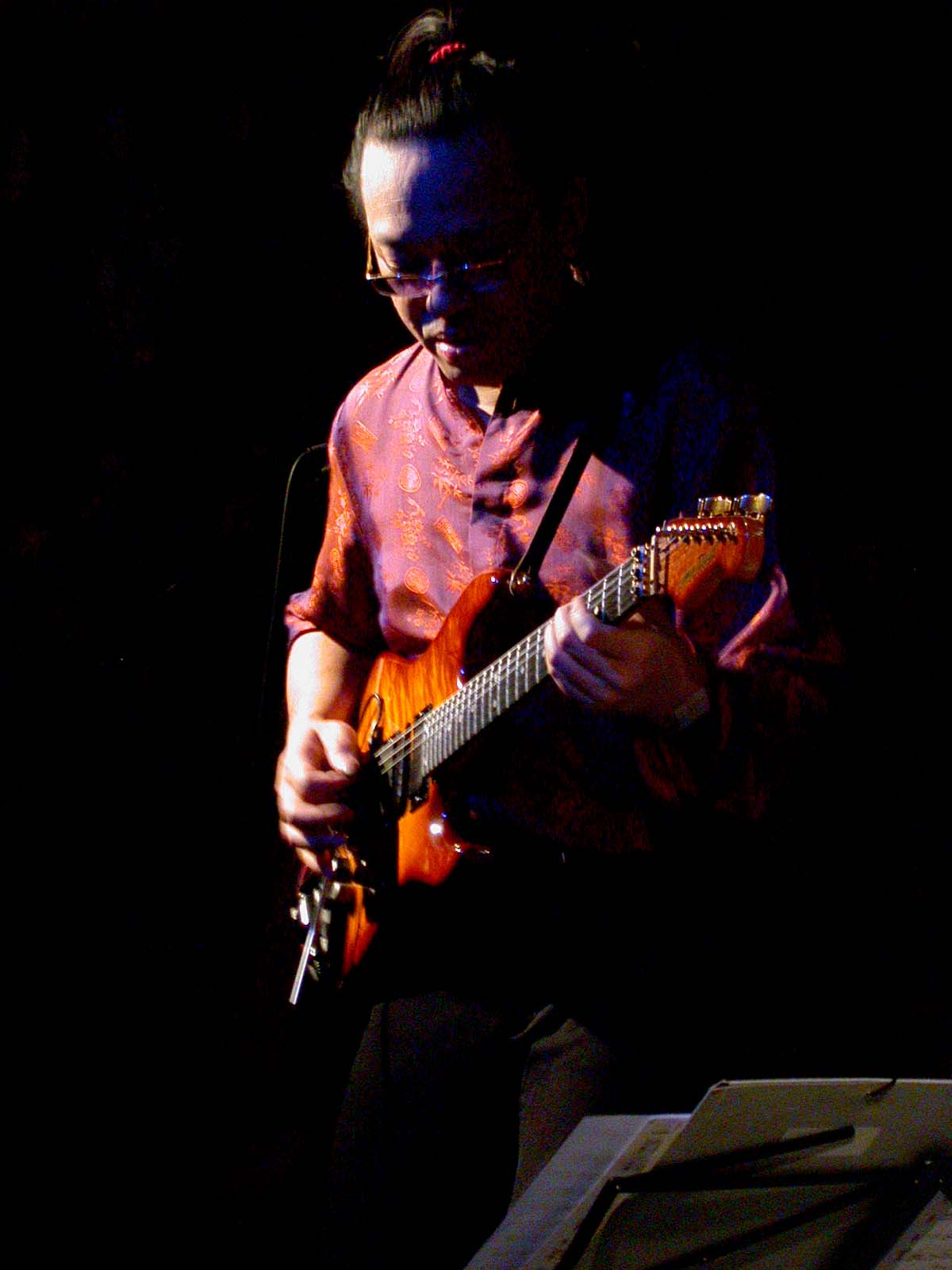 Nguyên Lê, Jazz Club Unterfahrt, Munich, Feb. 22nd, 2002.